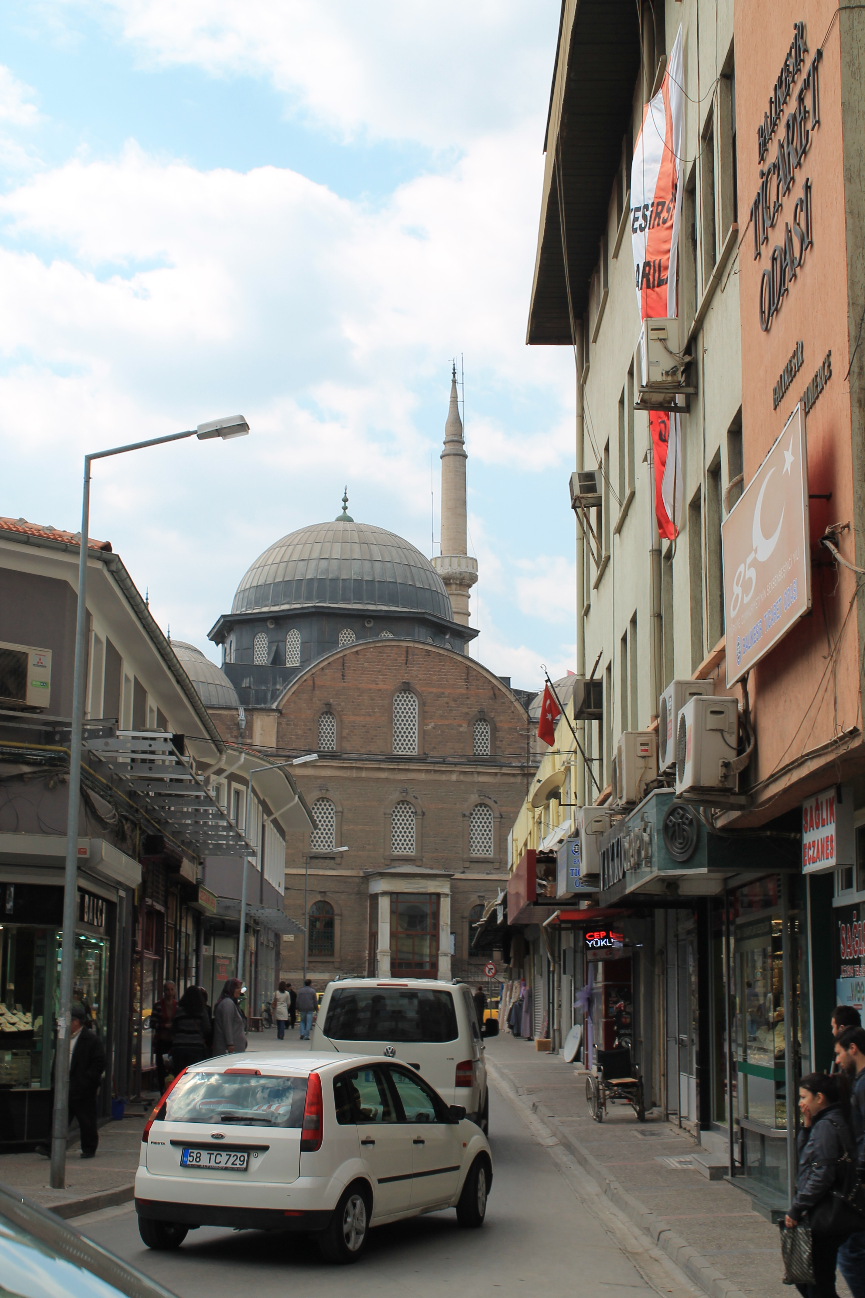 Zağanos Paşa Mosque